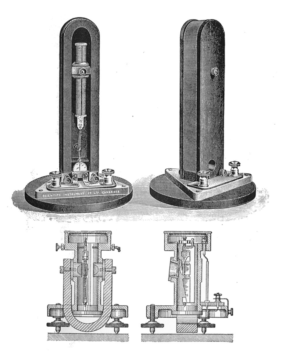 Permanent magnet oscillographs (Rankin Kennedy, Electrical Installations, Vol II, 1909).jpg